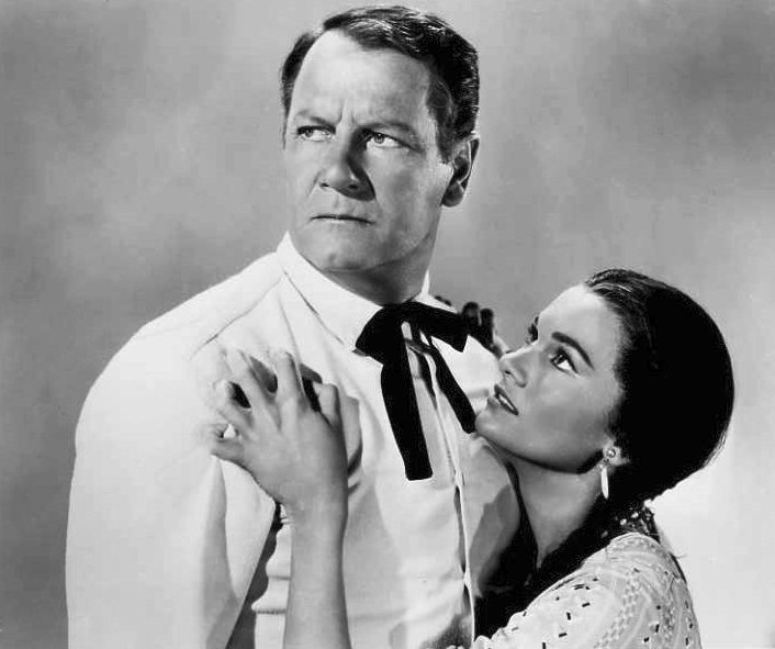 Joel McCrea and Gloria Talbott in The Oklahoman (1957) - publicity still (cropped : see source)